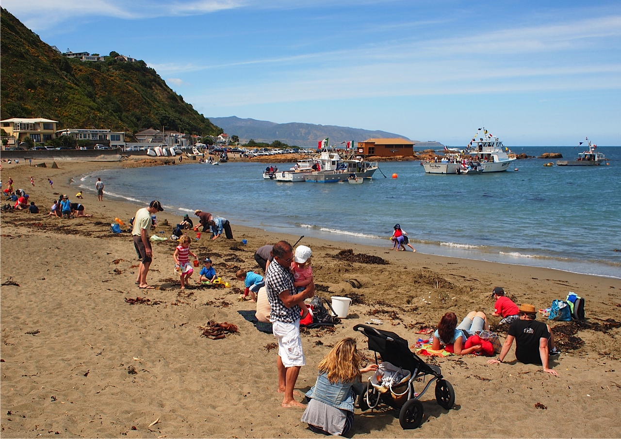 Blessing of the Boats event during the Island Bay Festival in Wellington, New Zealand on 12 February 2012.